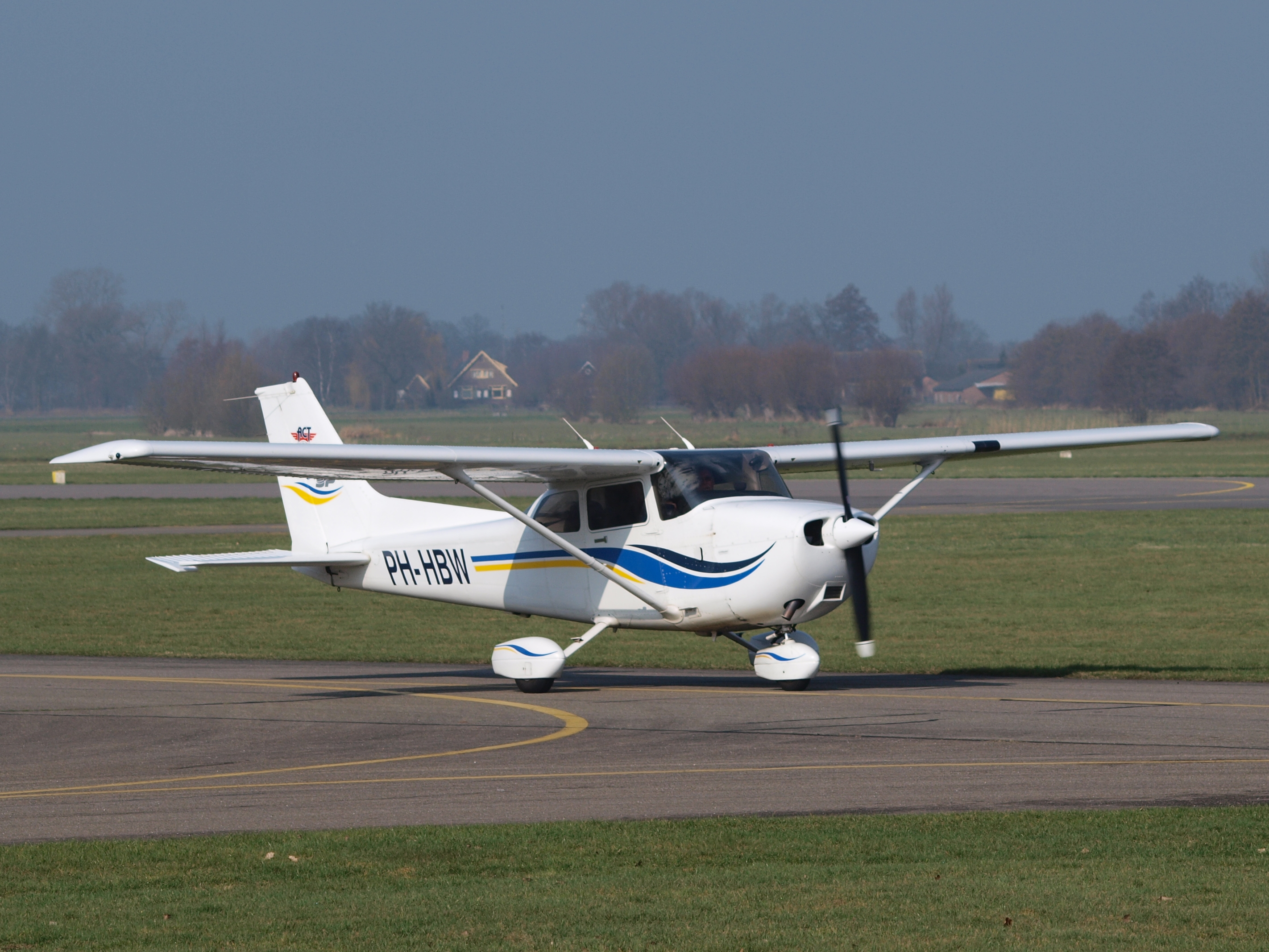 Photographed at Teuge International Airport. OLYMPUS DIGITAL CAMERA